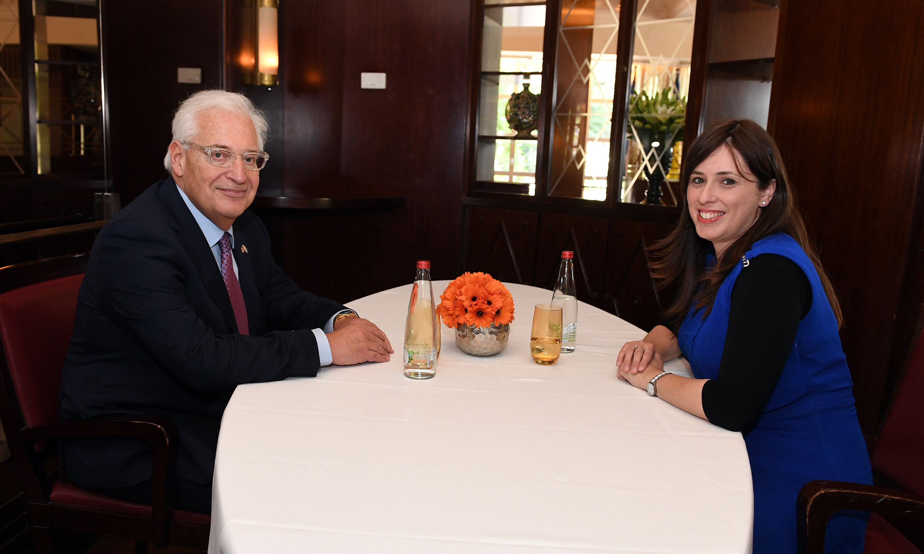 Ambassador Friedman meeting with Tzipi Hotovely, Deputy Mininster of Foreign Affairs in Jerusalem, May 16, 2017